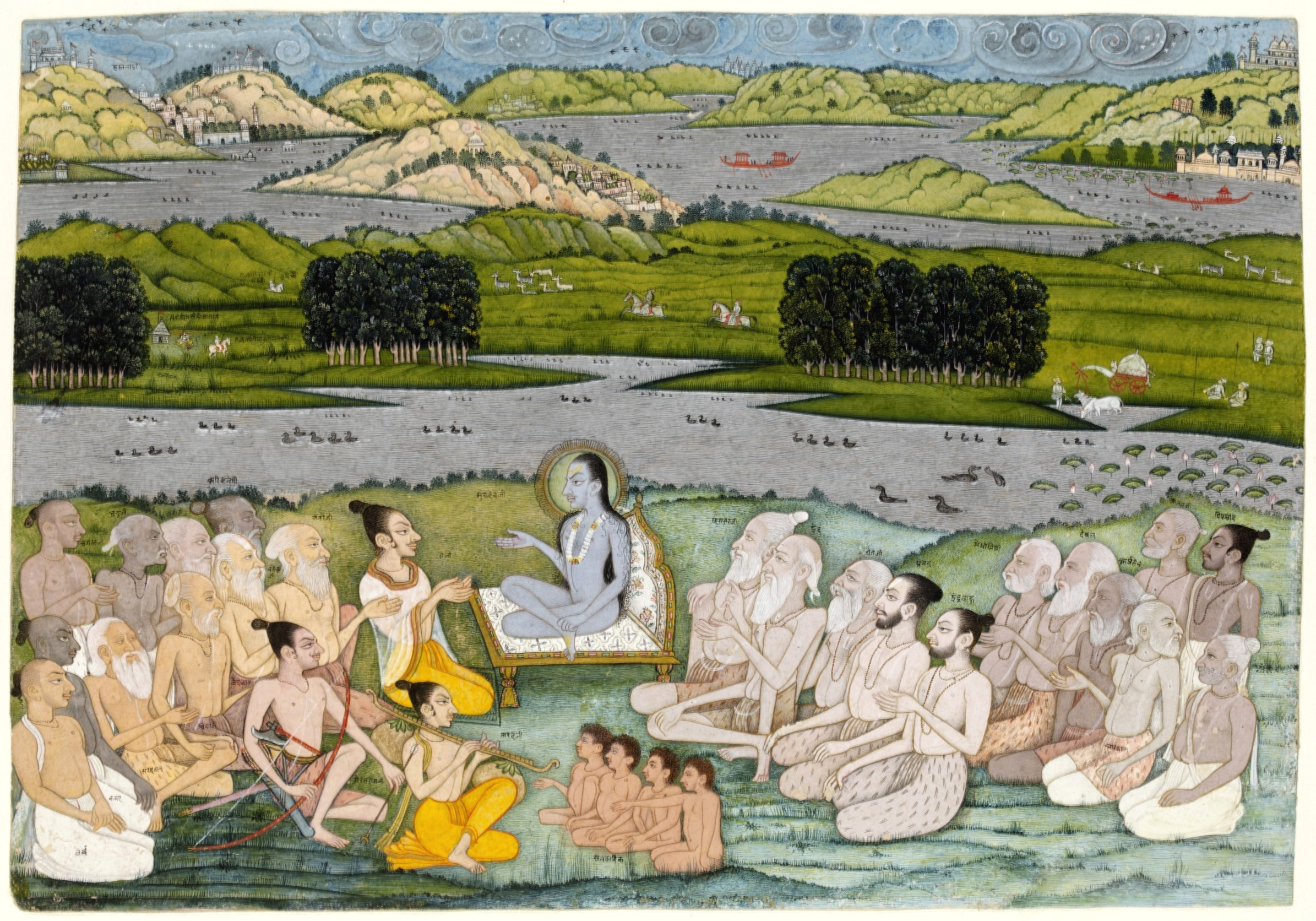 The Sage Sukhadeva addressing king Parikshit. Kishangarh, ca. 1760, Victoria and Albert Museum.